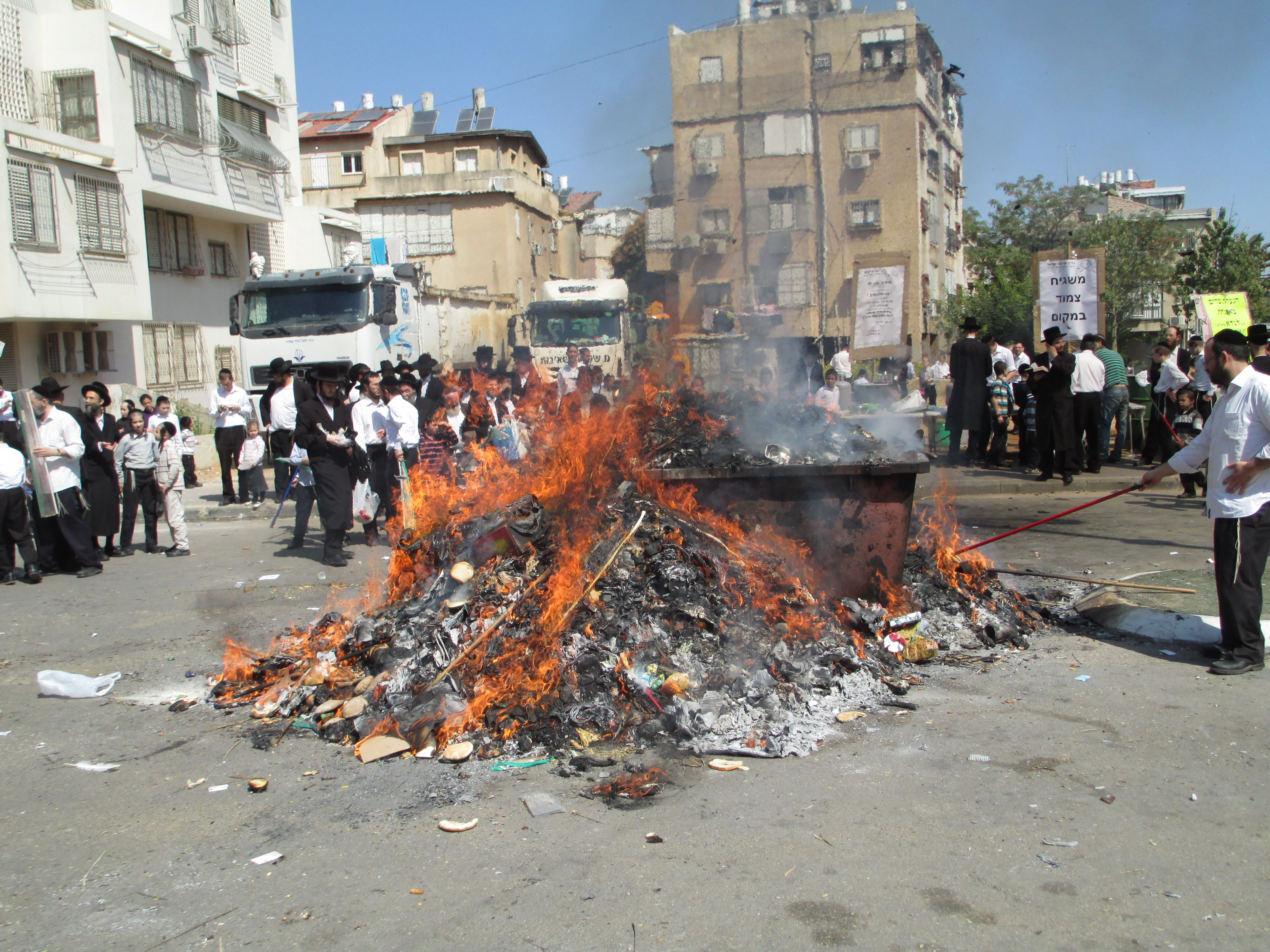 Burning of Chametz (leavened food) in Bnei Brak